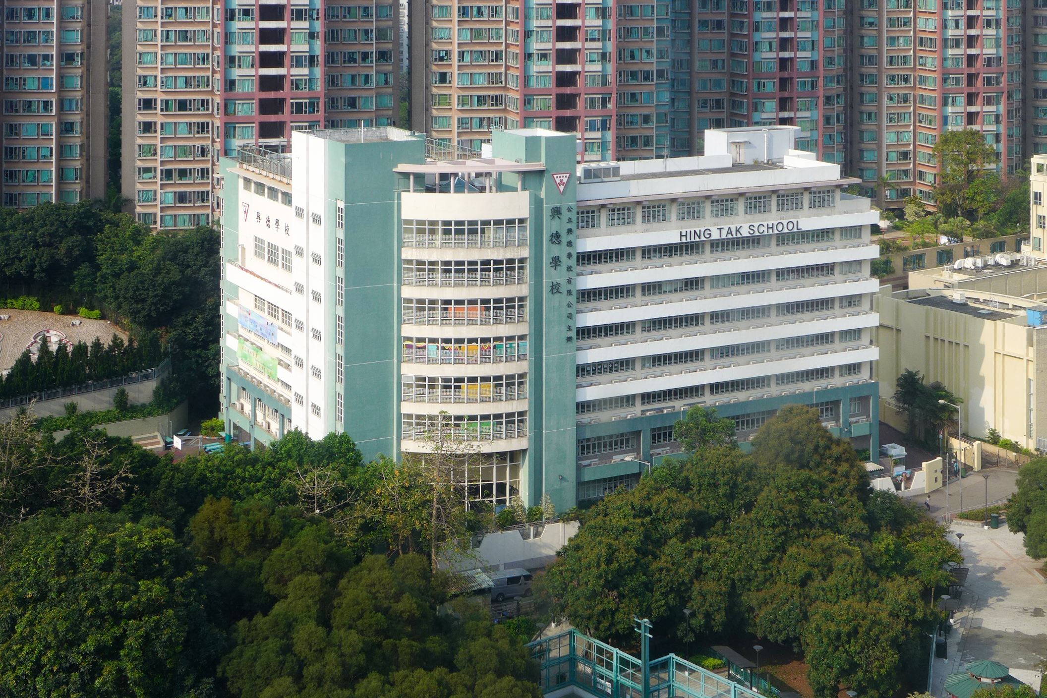 Hing Tak School